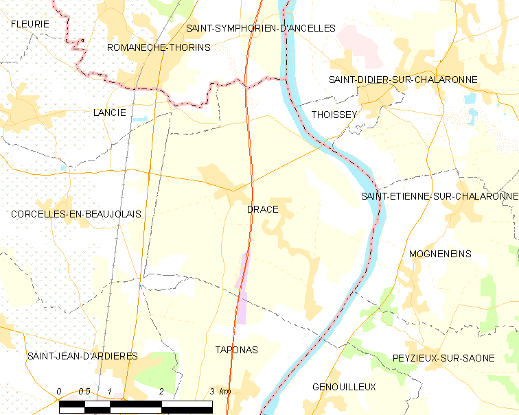 Map of French municipality